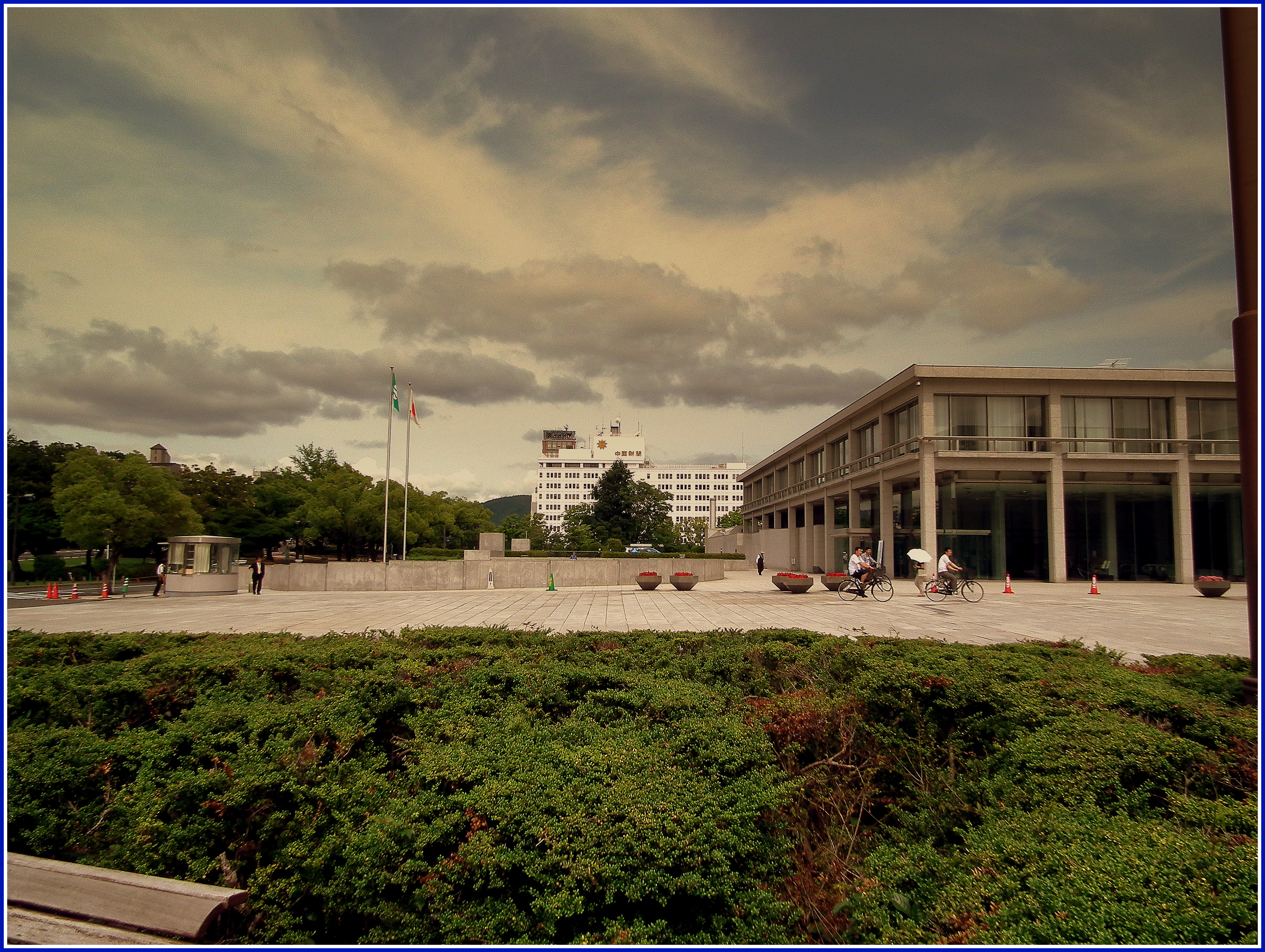 HIROSHIMA PEACE PARK JAPAN JUNE 2012